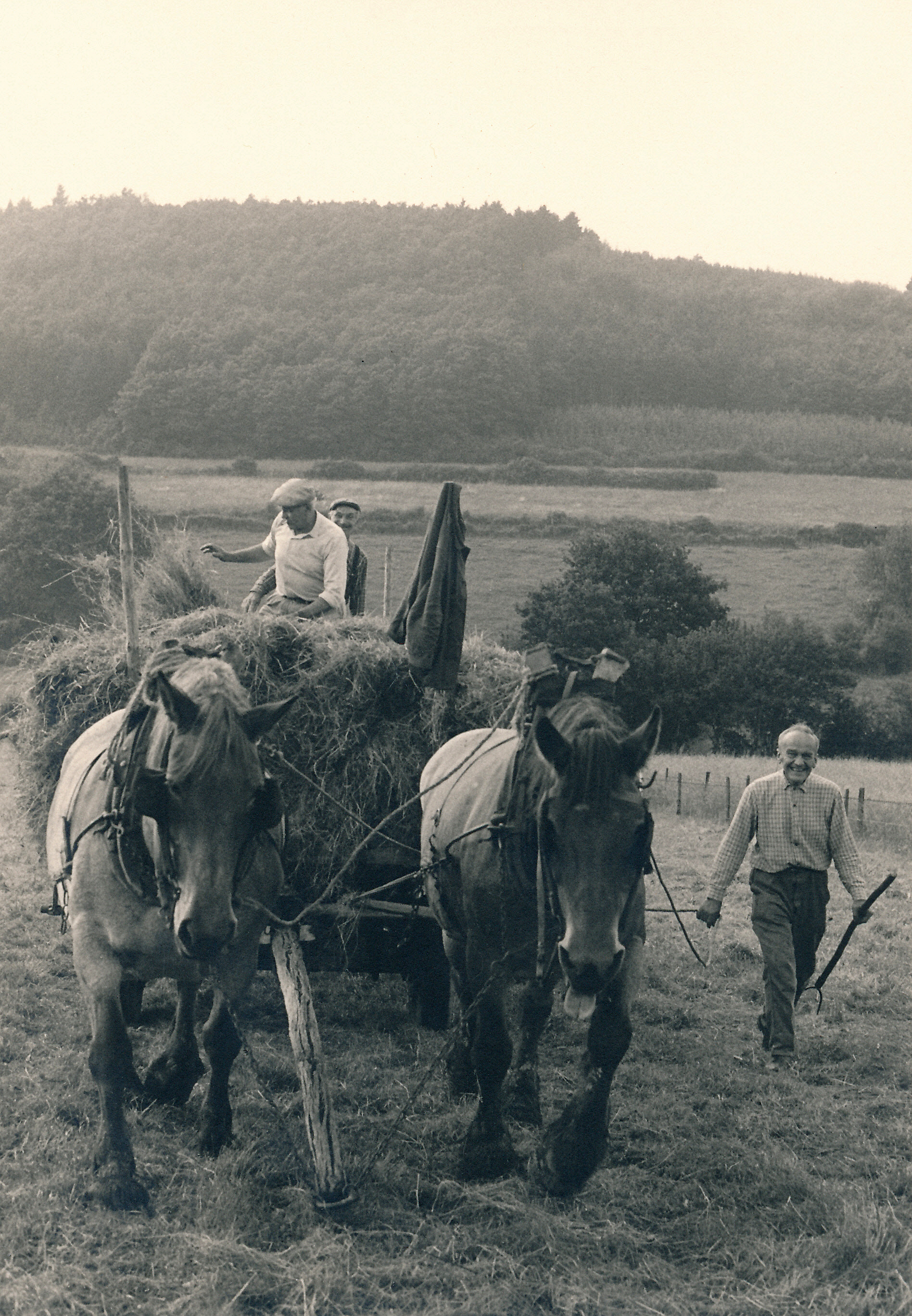 Jean, Joseph and Louis during the Haymaking of July 1972 at Forrières (Belgium).